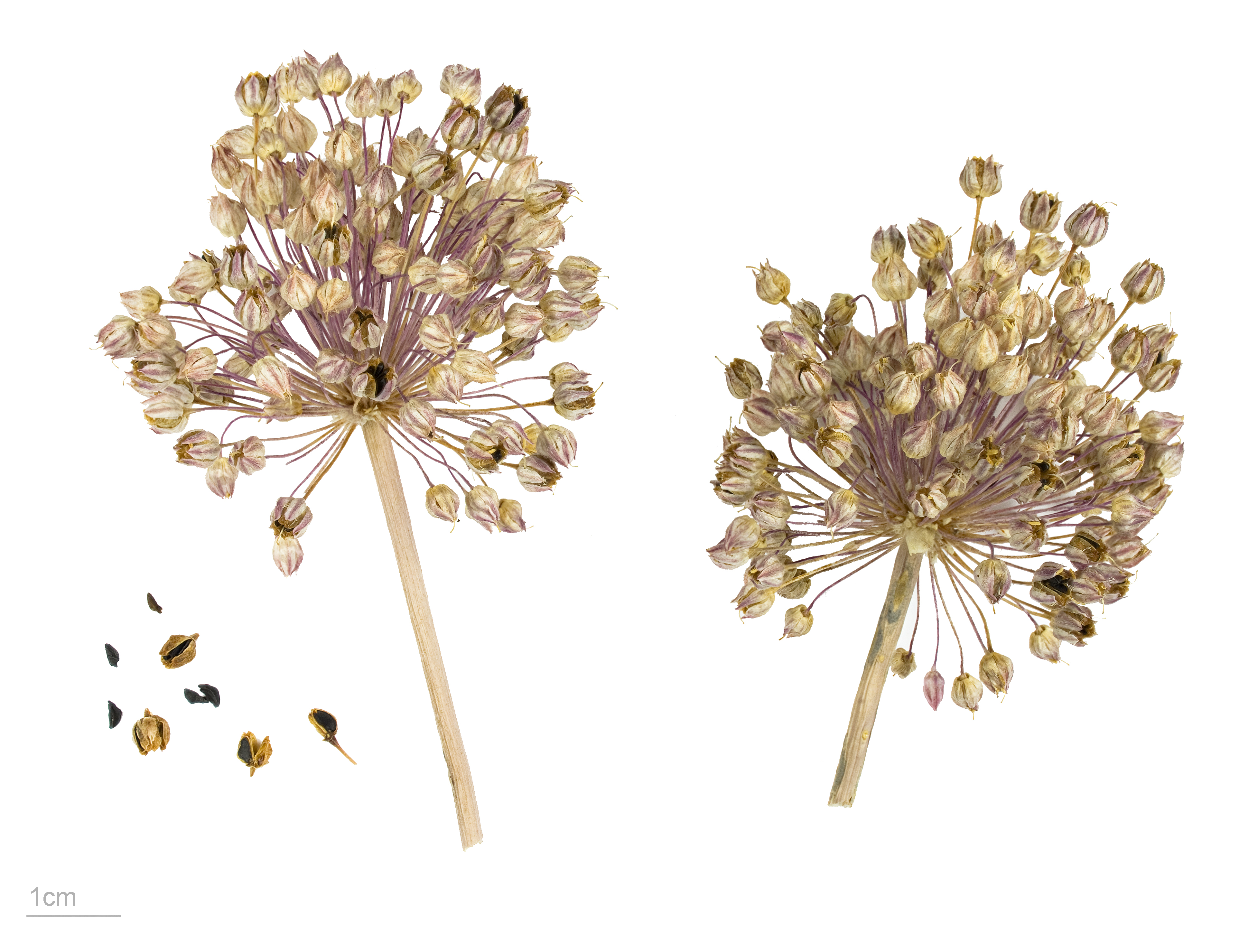 leek , fruits and seeds